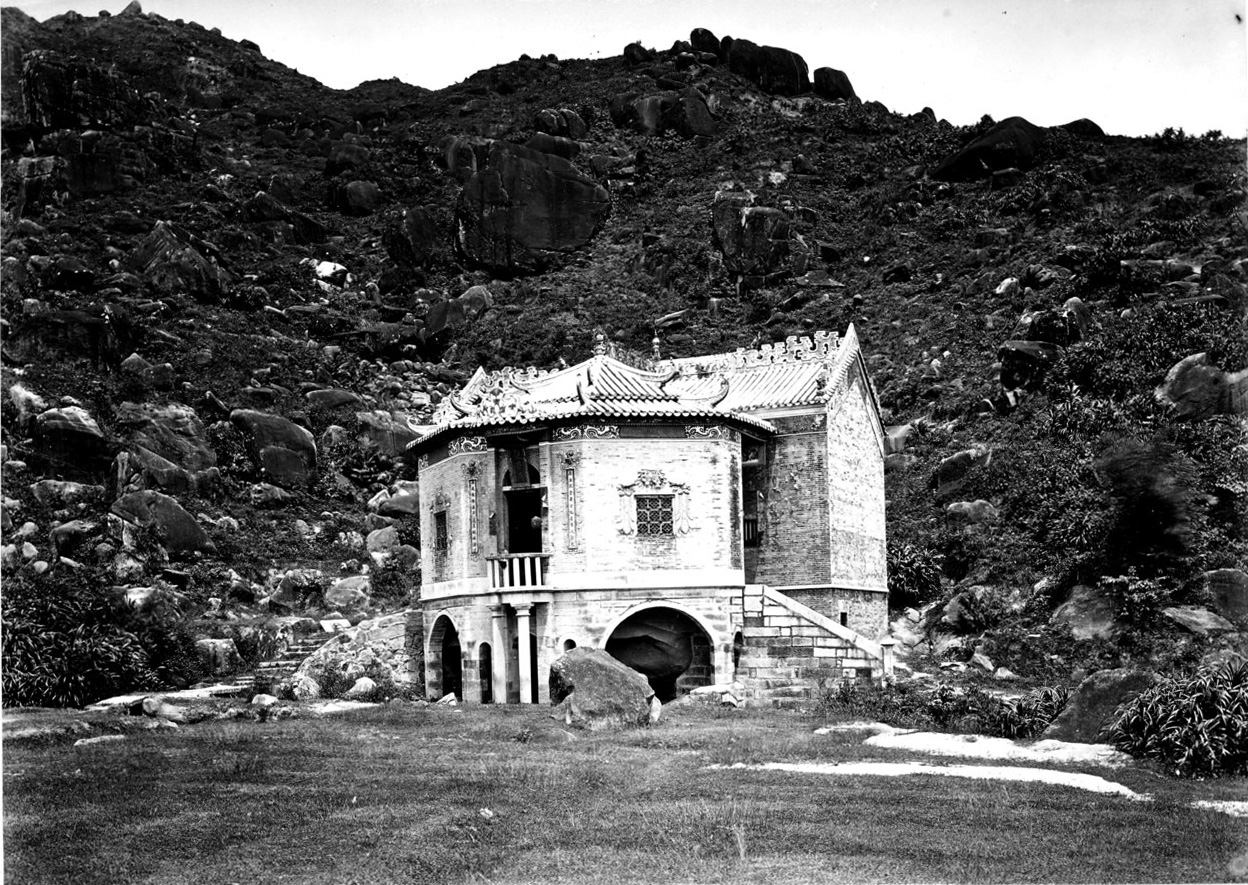 photo from Album of Hongkong Canton Macao Amoy Foochow